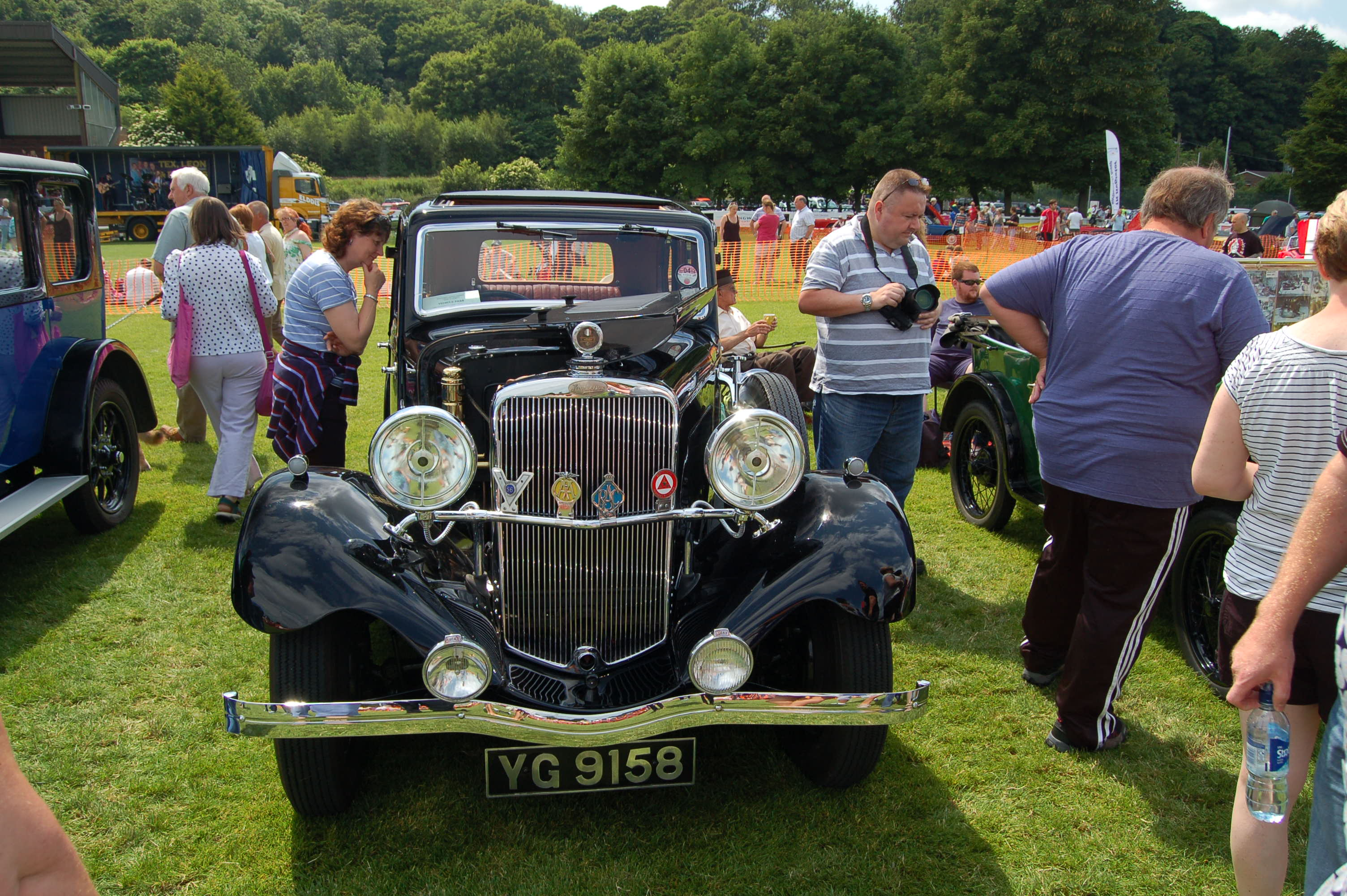 Sunbeam Dawn 12.8hp 1934 (DVLA) first registered 30 November 1934, 1631cc Corbridge Classic Car Show 2013